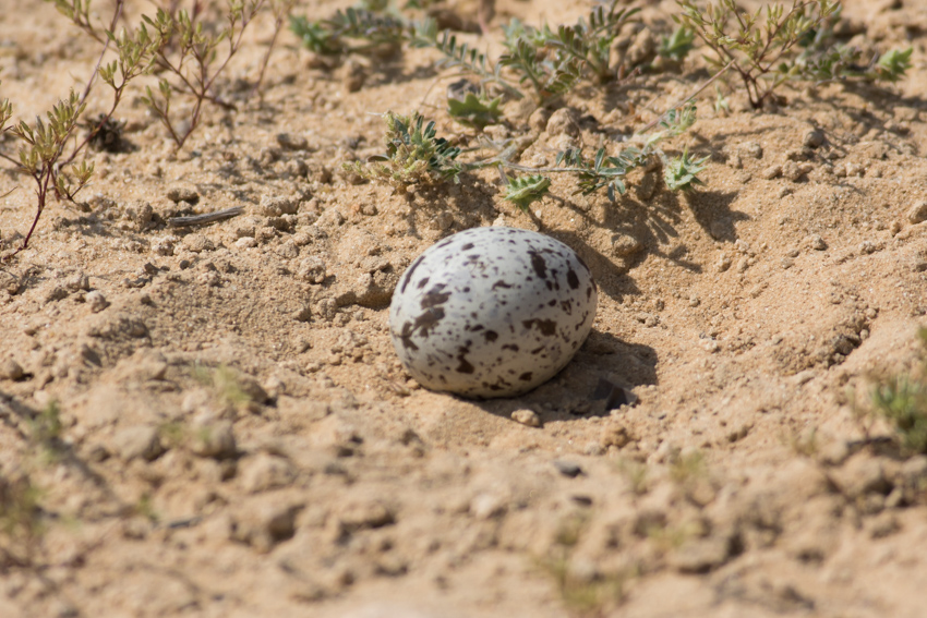 Burhinus oedicnemus nest with single egg. (the pic taken with no intention to disturb the birds, from a road)